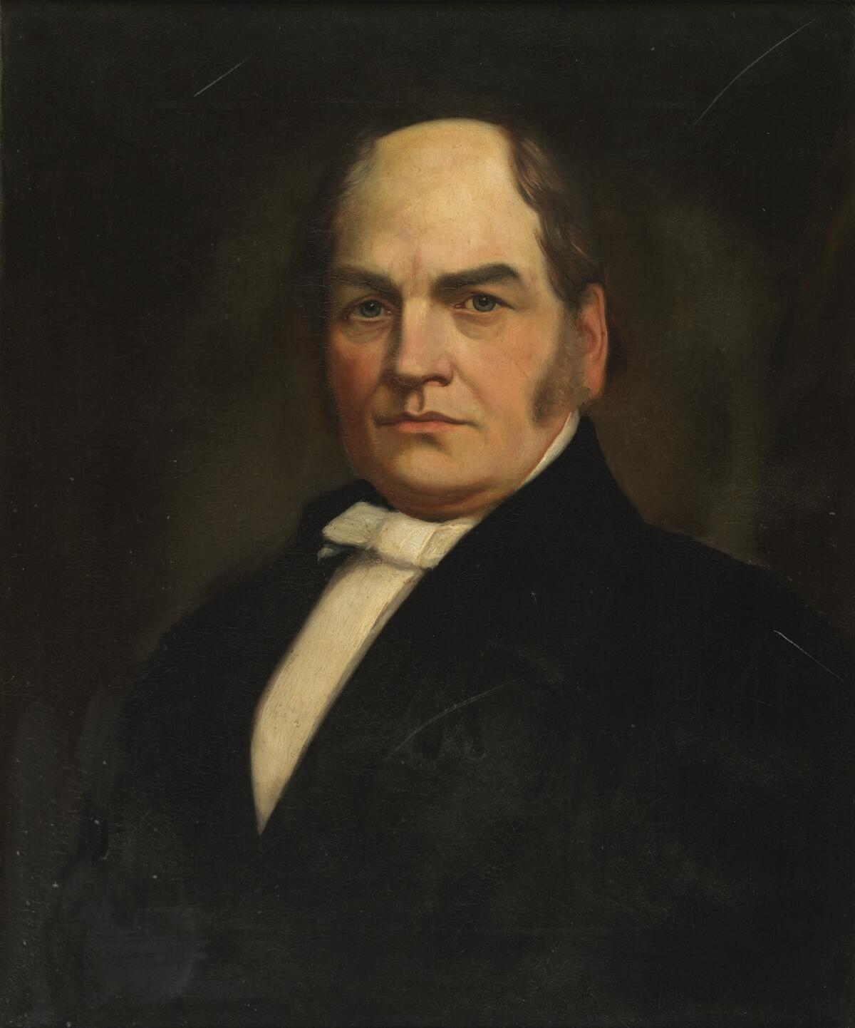 A painting from the Framed Works of Art collection at the National Library of wales.